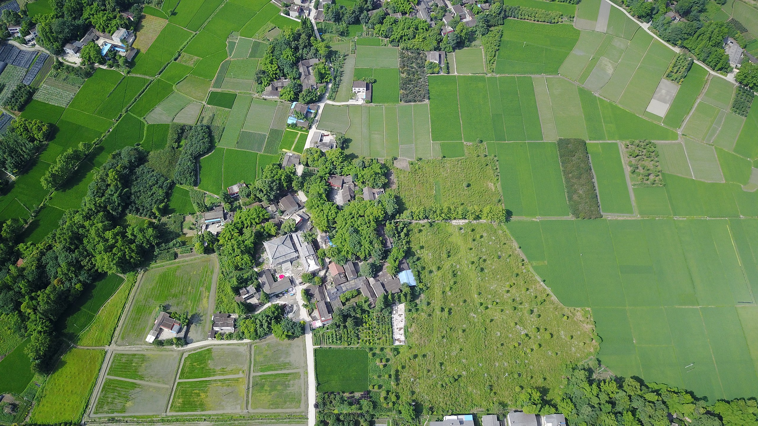 bird-eye photo taken by a drone